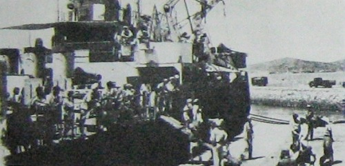 Communist troops left Guangdong to Shandong shiped by US Navy.